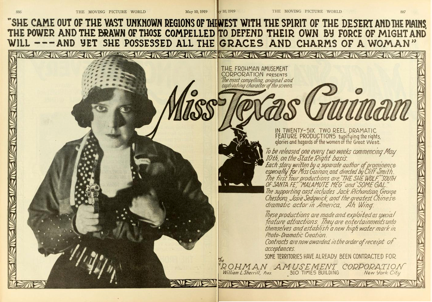 Advertisement, Moving Picture World, May 1919, for films with actress Texas Guinan.